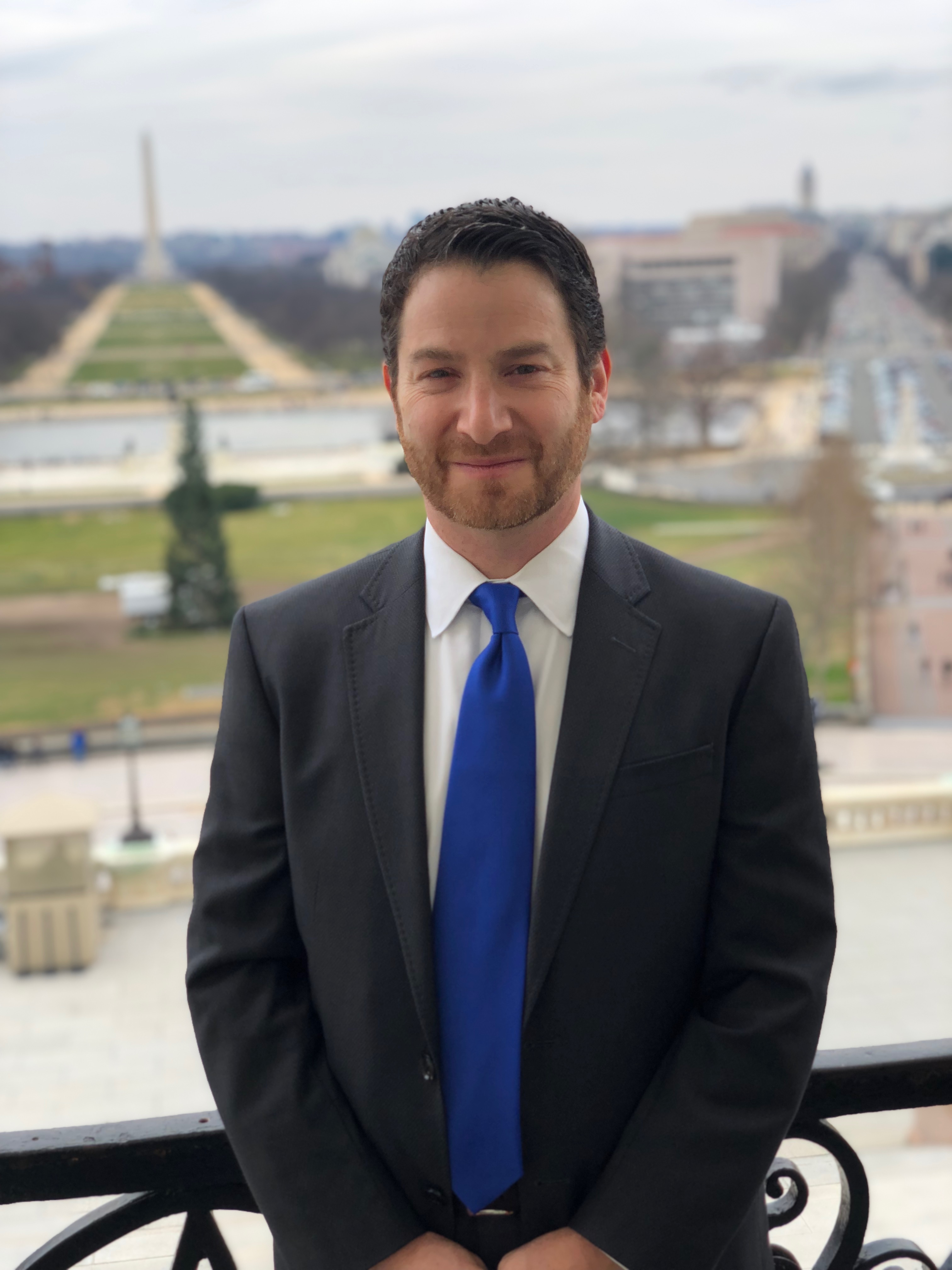 Joel Martin Rubin Head-Shot